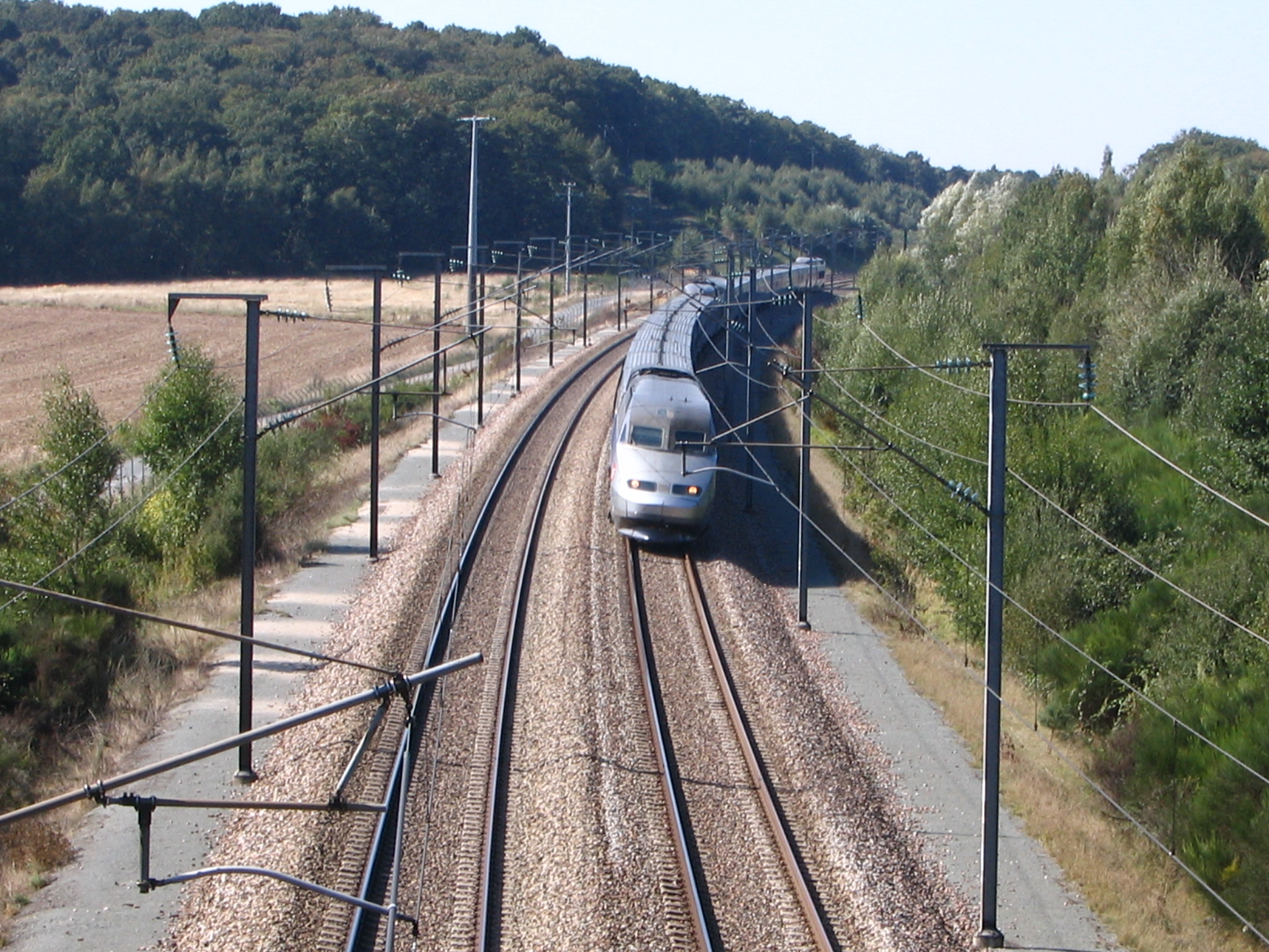 A TGV on LGV Atlantique, near Longvilliers, Yvelines, France.